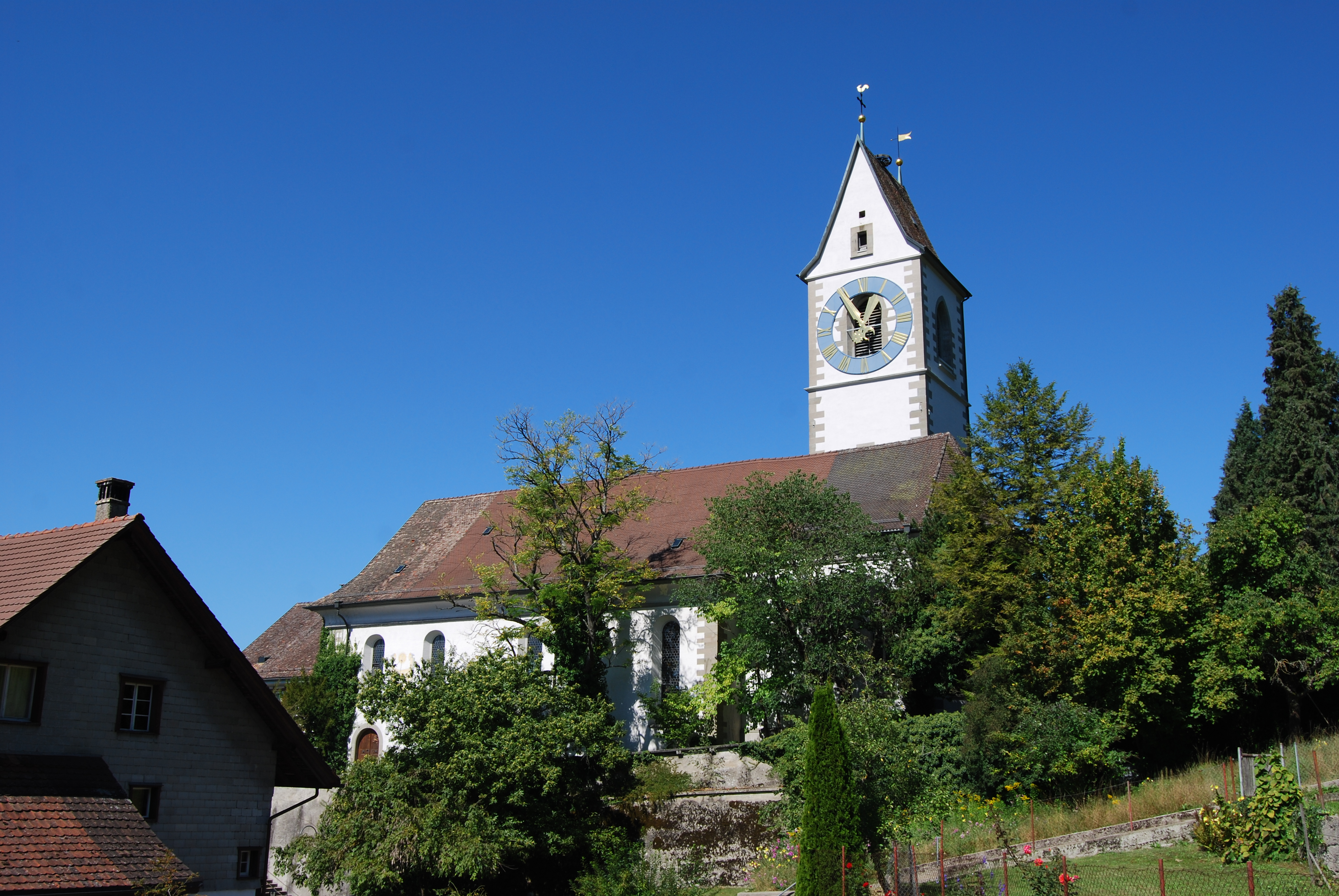 Church of Unterstammheim, canton of Zürich, SwitzerlandEsperanto: Preĝejo de Unterstammheim, Kantono Zürich, Svislando